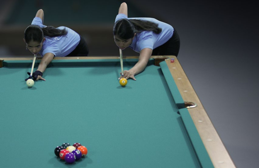 billiard